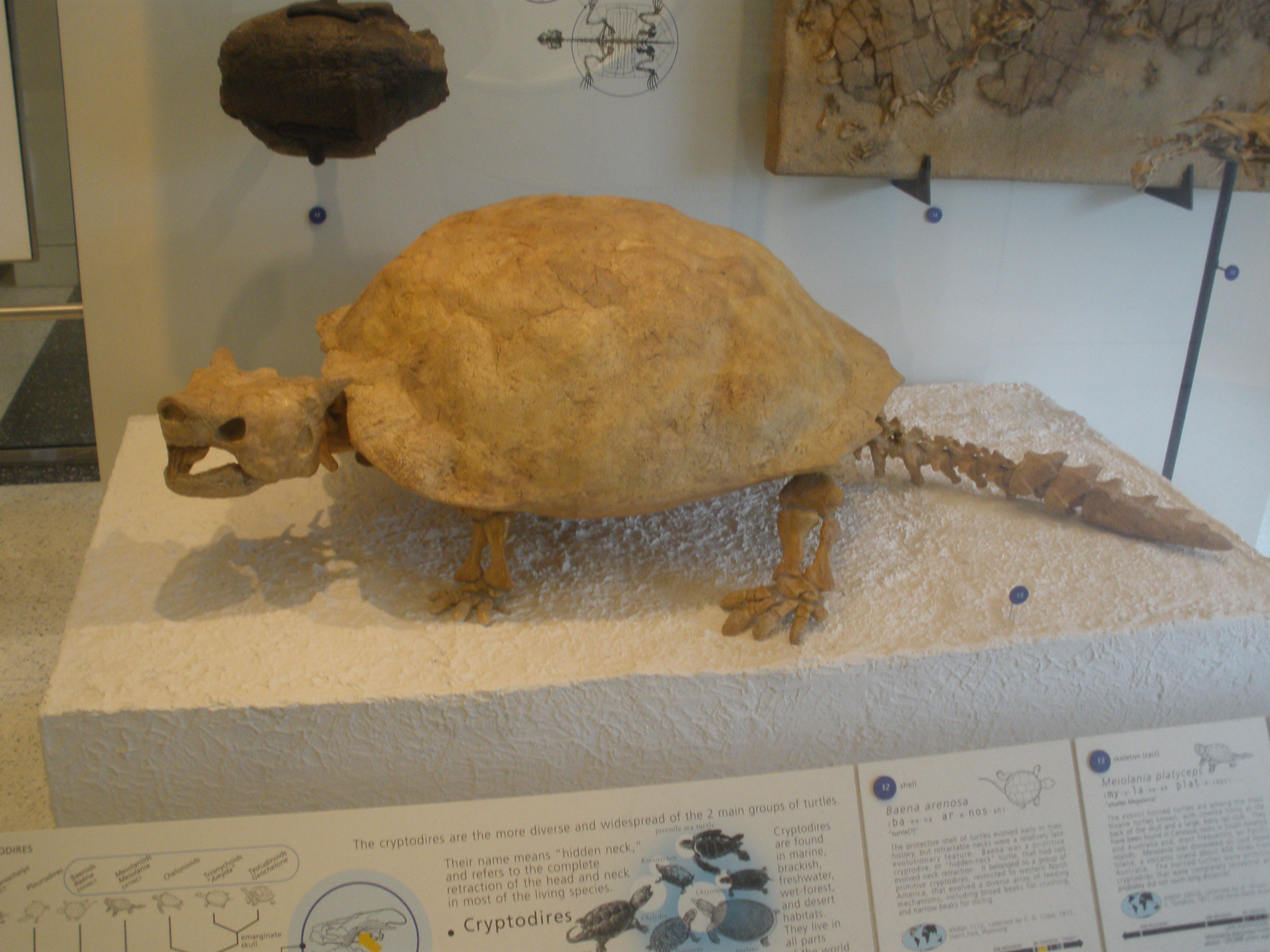 Skeleton of Meiolania platyceps, a fossil Testudine